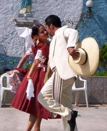 Marinera Norteña, the most representative dance from Peru. Mostly perfomed in the Coast.